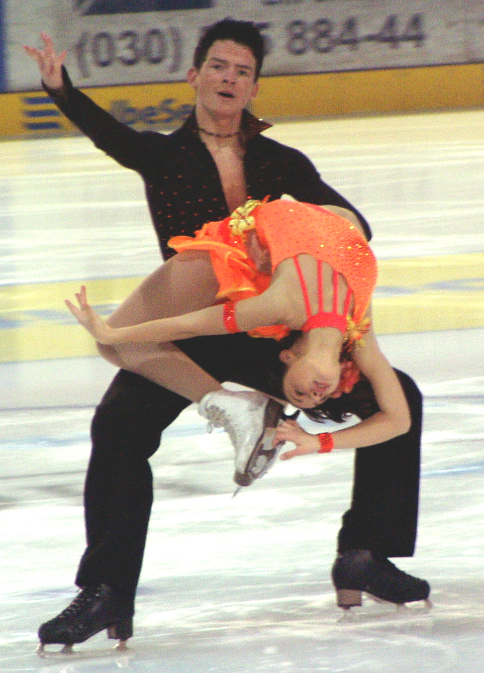 Tanja Kolbe and Paul Boll at the German junior championships 2006 in Berlin at the original dance